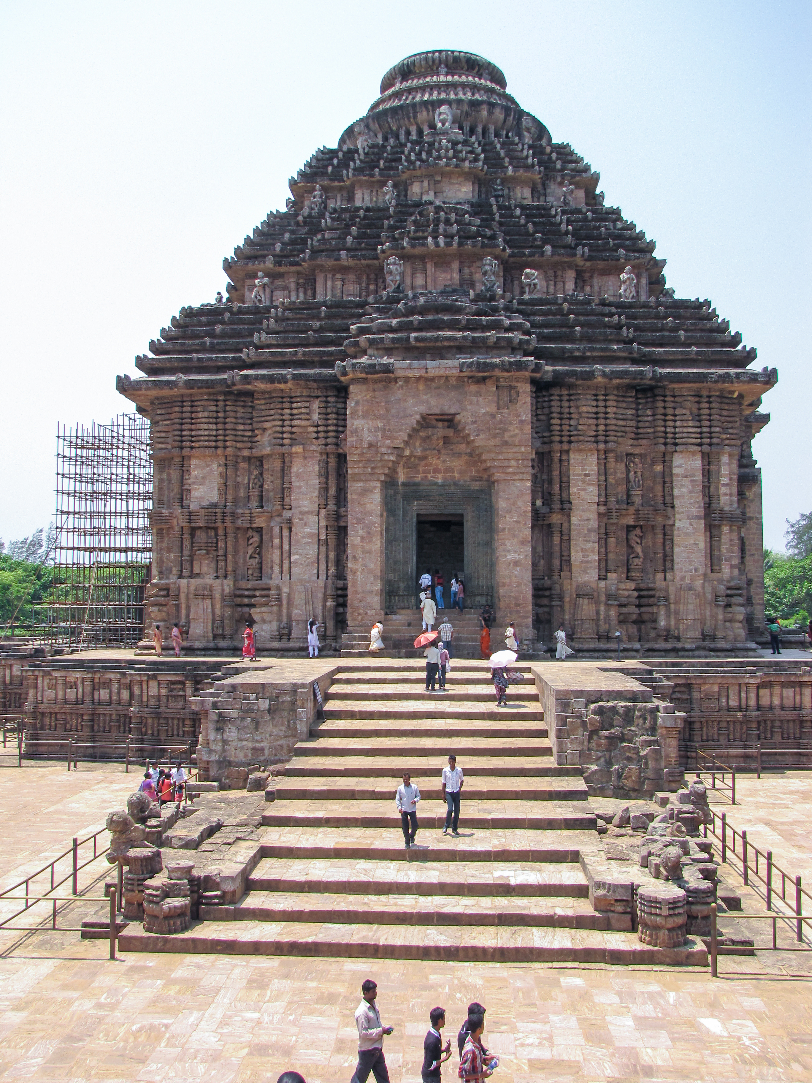 Konark Templae Mukhasala